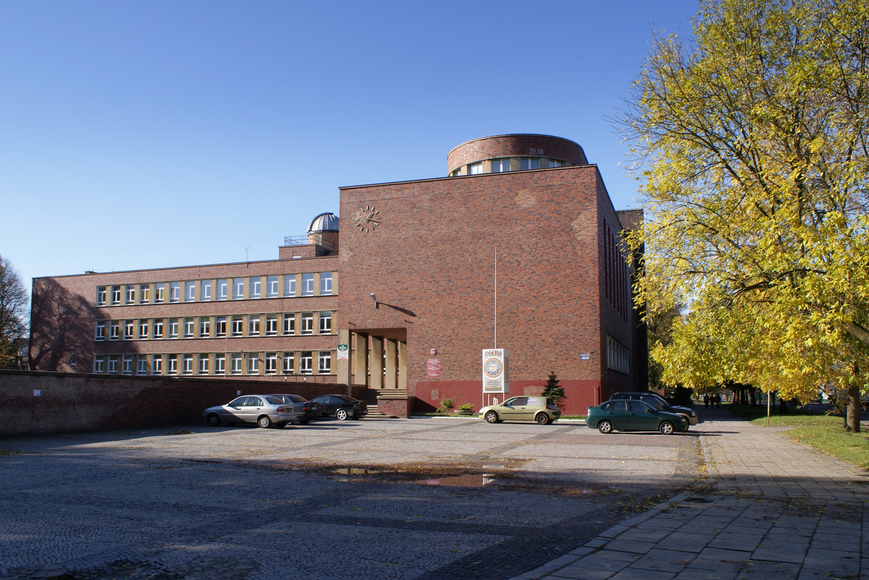 Nicolaus Copernicus schools in Kołobrzeg, Poland